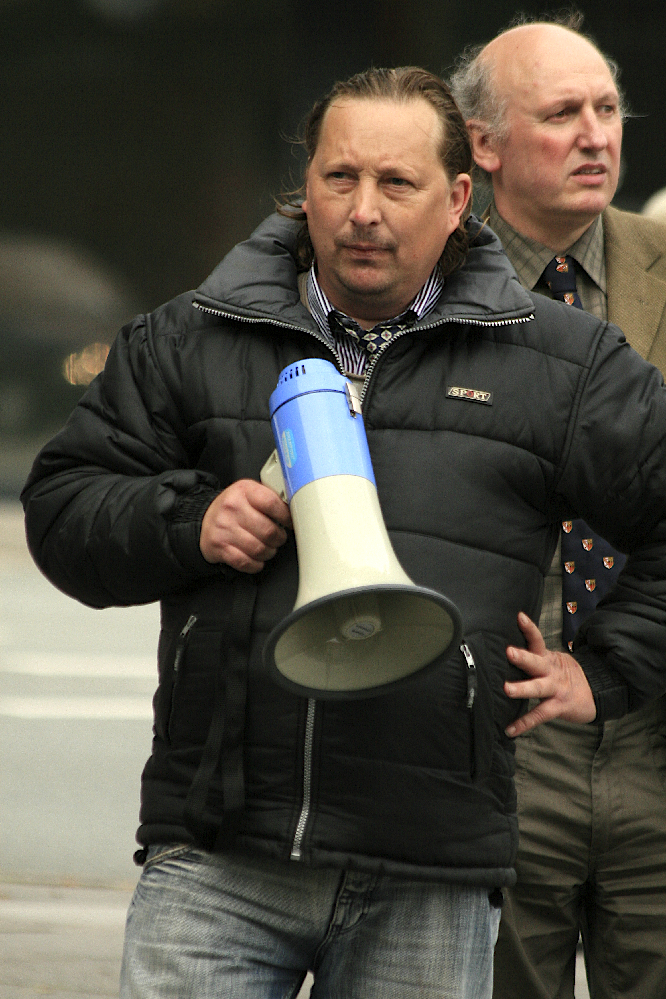 Chairman of Stop Islamisation of Denmark, Anders Gravers Pedersen. In the background is the spokesman of Stop Islamisation of Europe in United Kingdom, Stephen Gash.